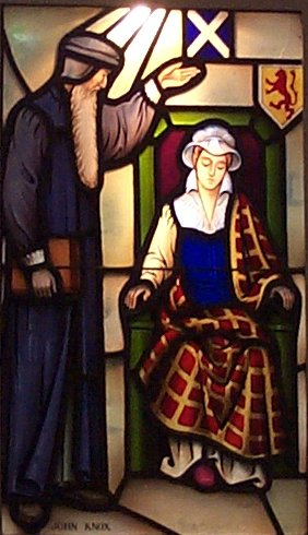 John Knox admonishing Mary Queen of Scots. Stained glass window in Covenant Presbyterian Church, Long Beach, California, USA.